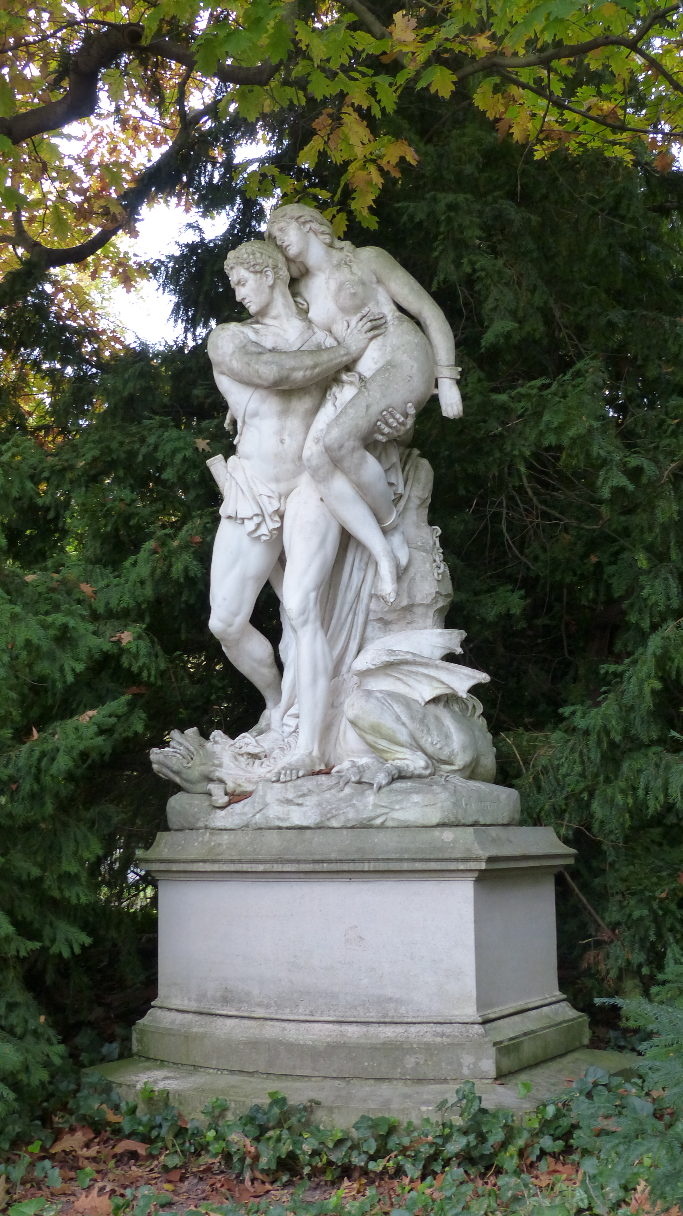 Palmengarten in Frankfurt am Main; Sculpture of Perseus and Andromeda; 19th century, unknown artist